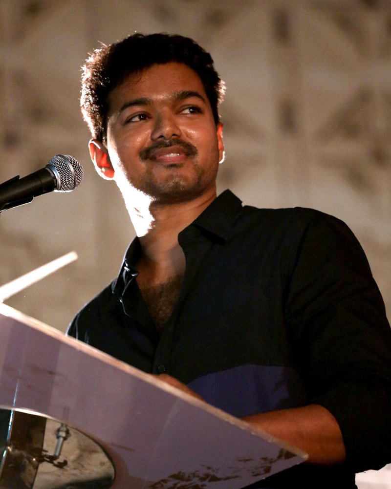 Vijay At The Jilla 100 days celebrations event